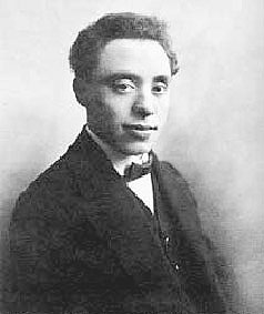 Zmitrok Byadulya, Byelorussian writer in Youth.